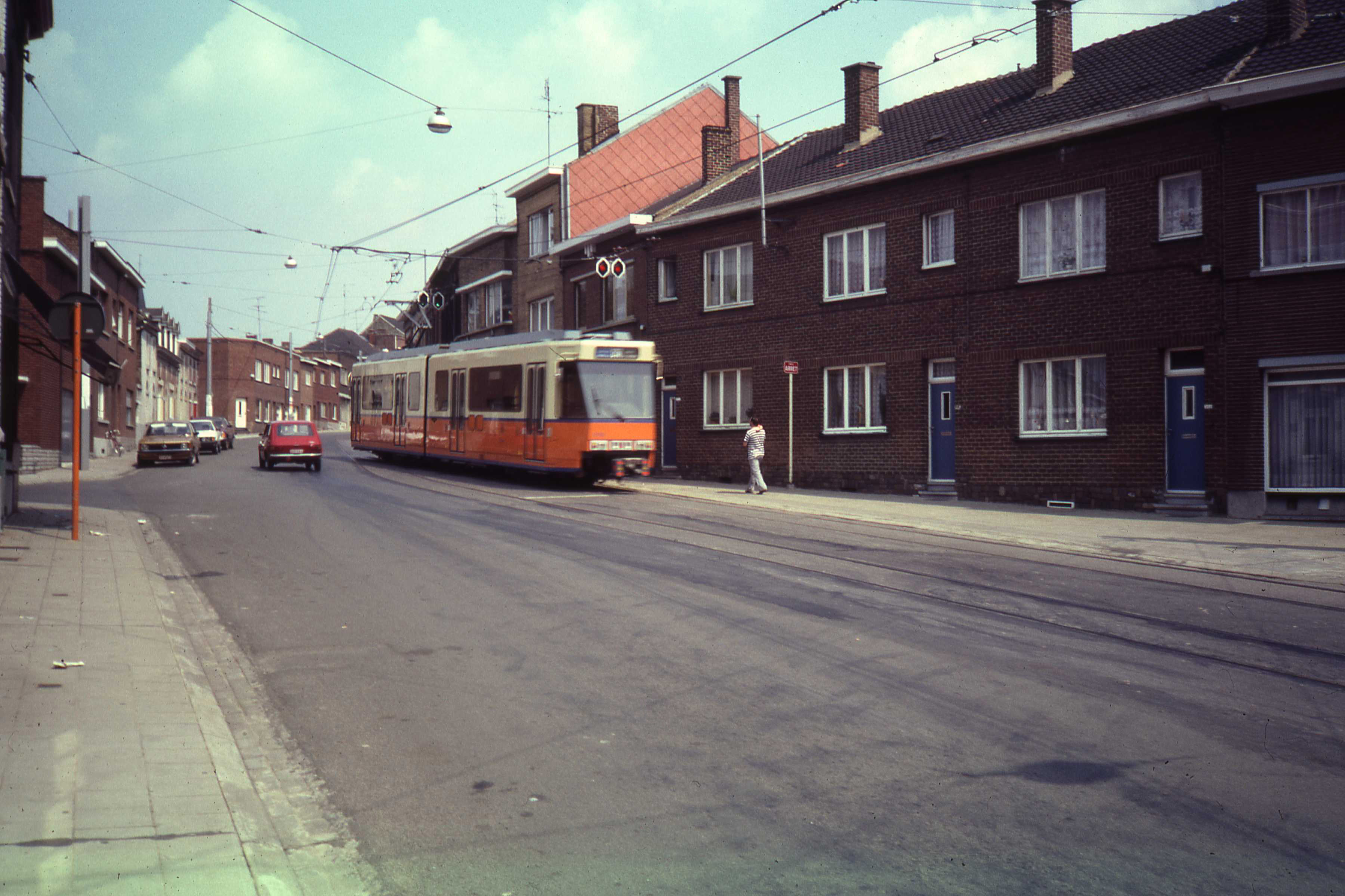 SNCV red tram in La Louvière. Line 90 crossing by a single track section just north of the railway bridge.